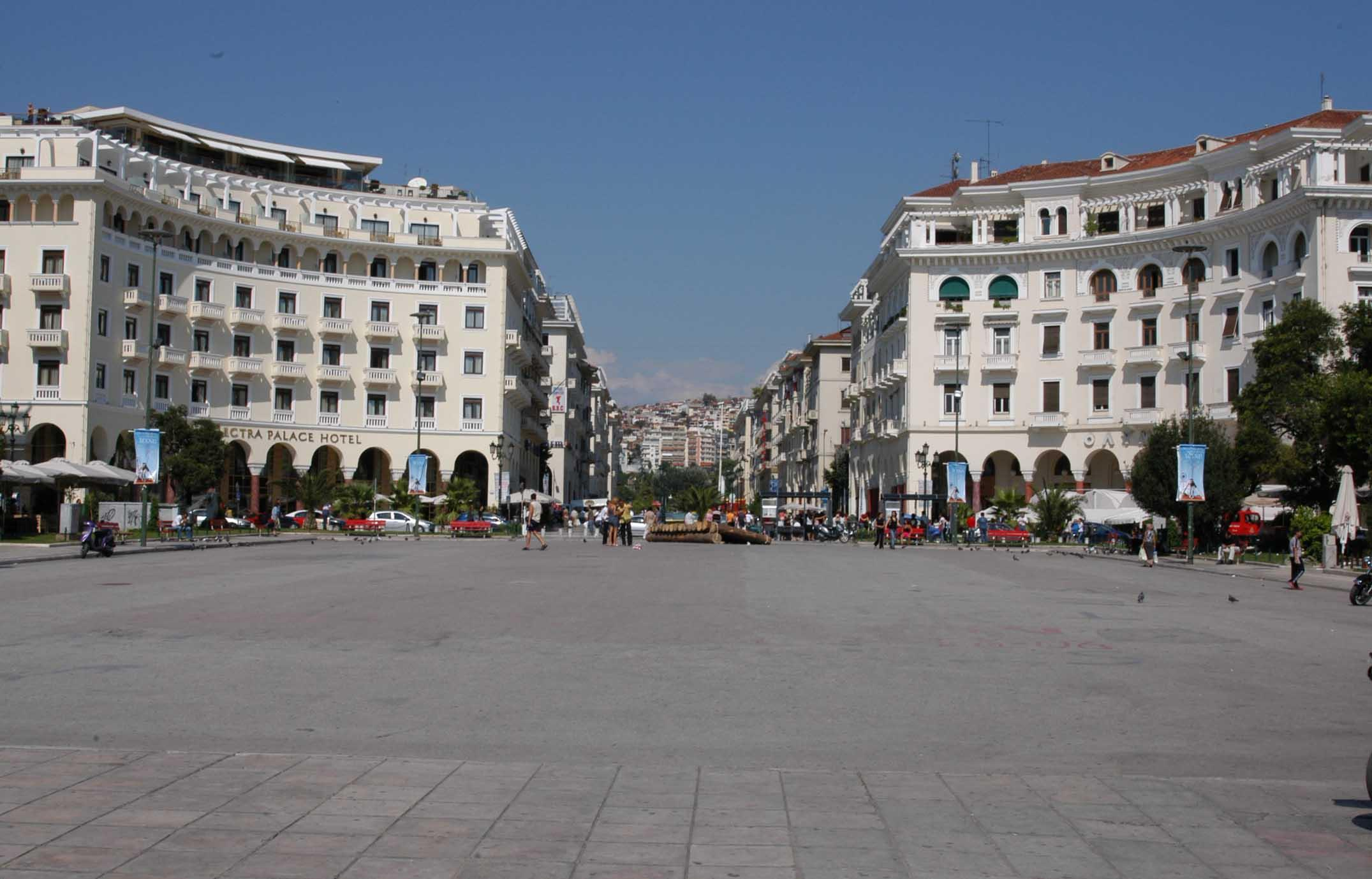 Aristotelous Square in Thessaloniki, Greece. Photo taken 2006.